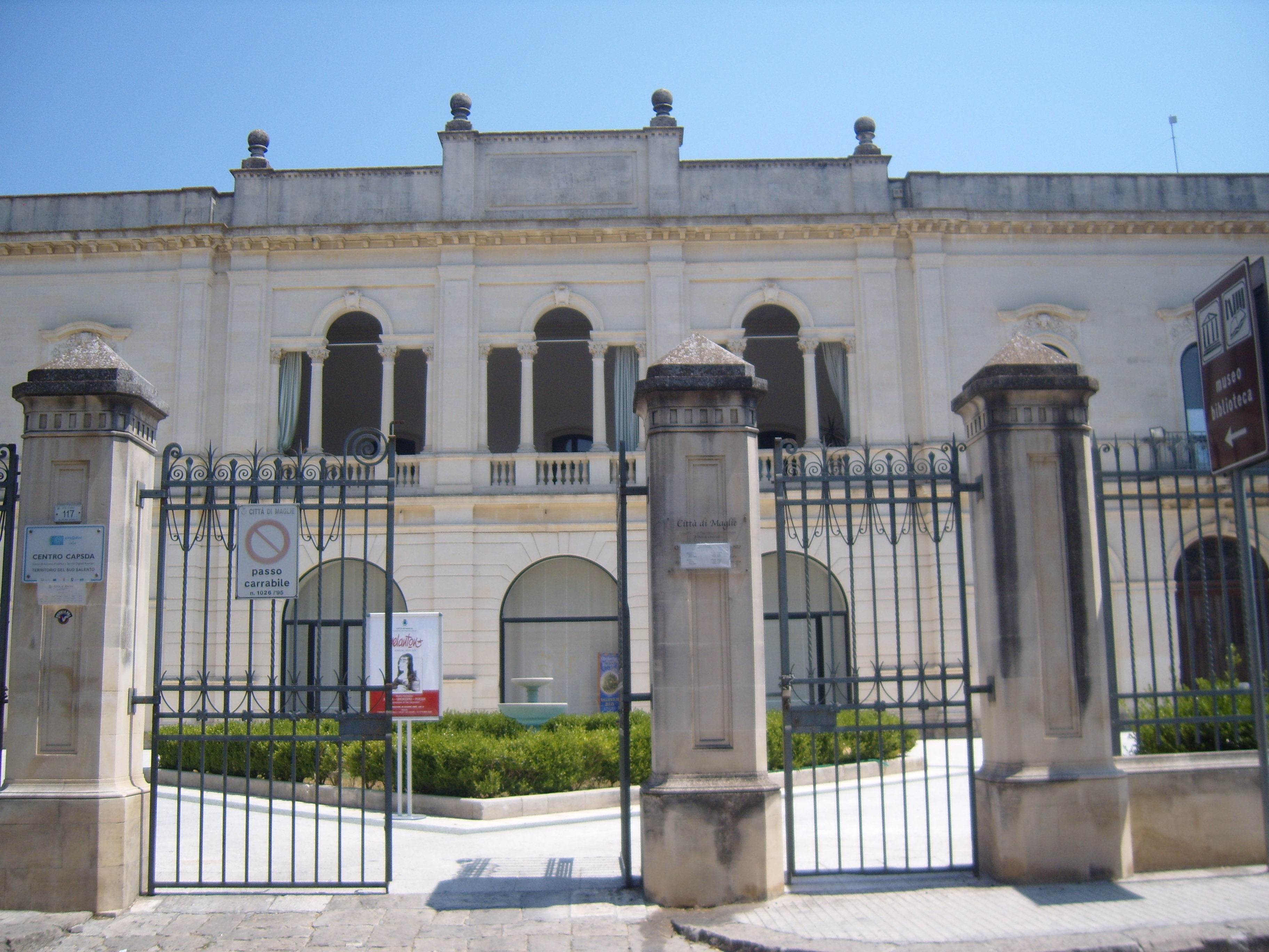 Paleontological Museum in Maglie, Province of Lecce, Italy